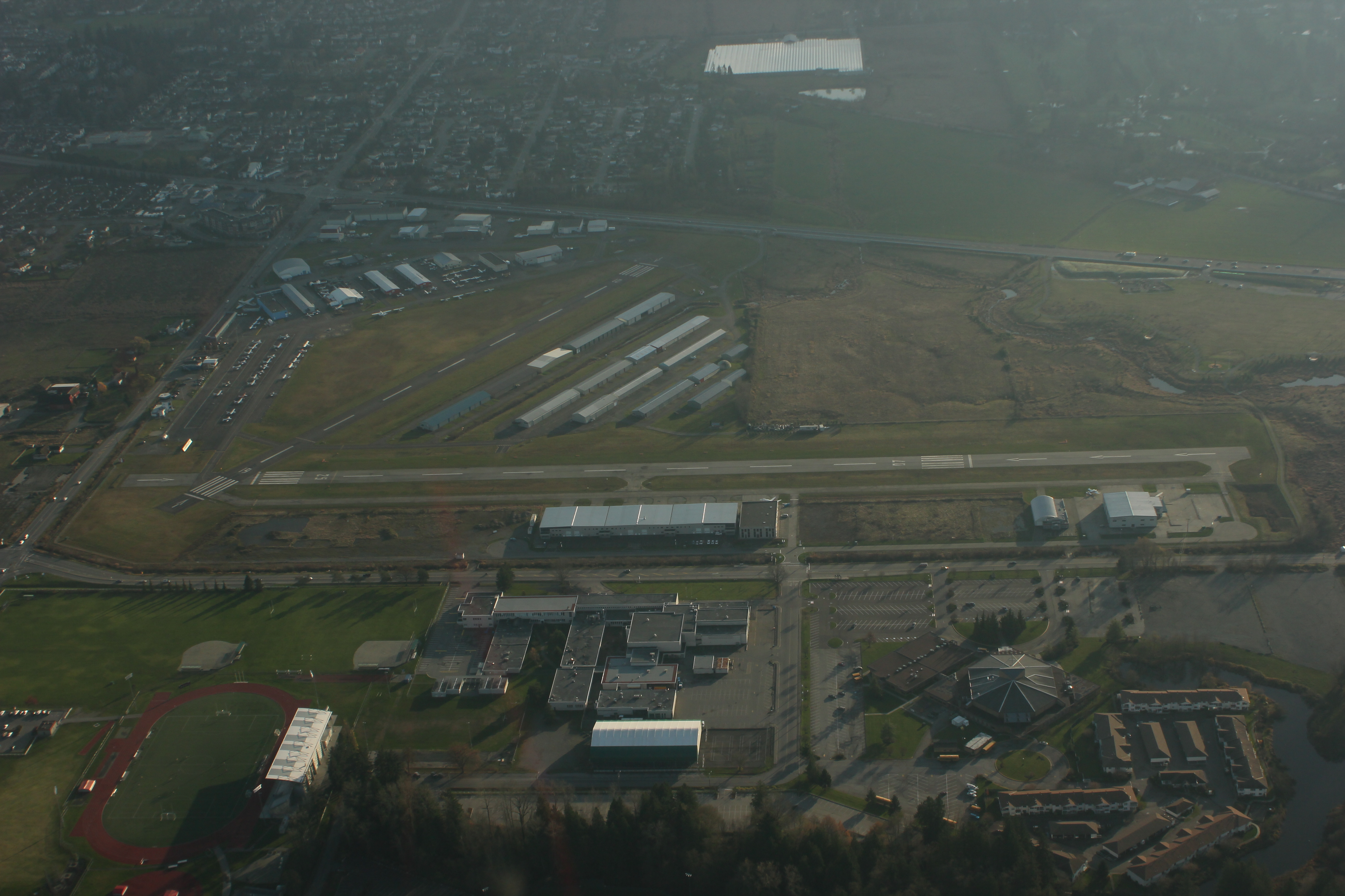 Modern photograph of CYNJ airport, Langley, BC.